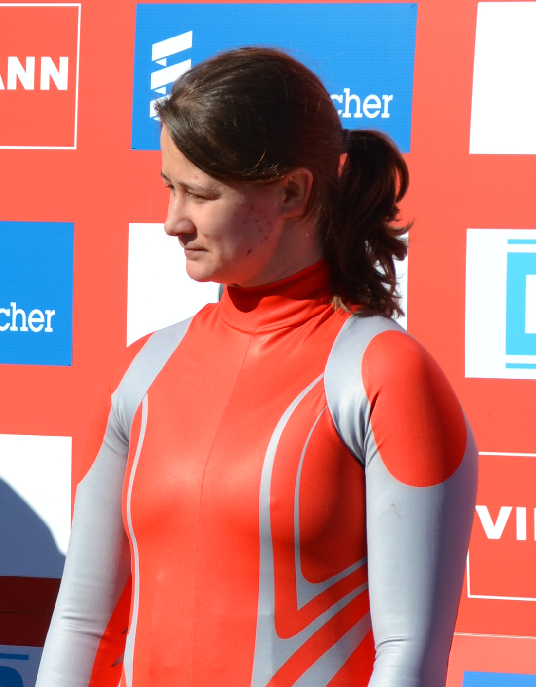 Luge world cup race season 2014/15 in Altenberg/Germany, 19th to 22nd Februar 2015. Day 2: Nations cup races.